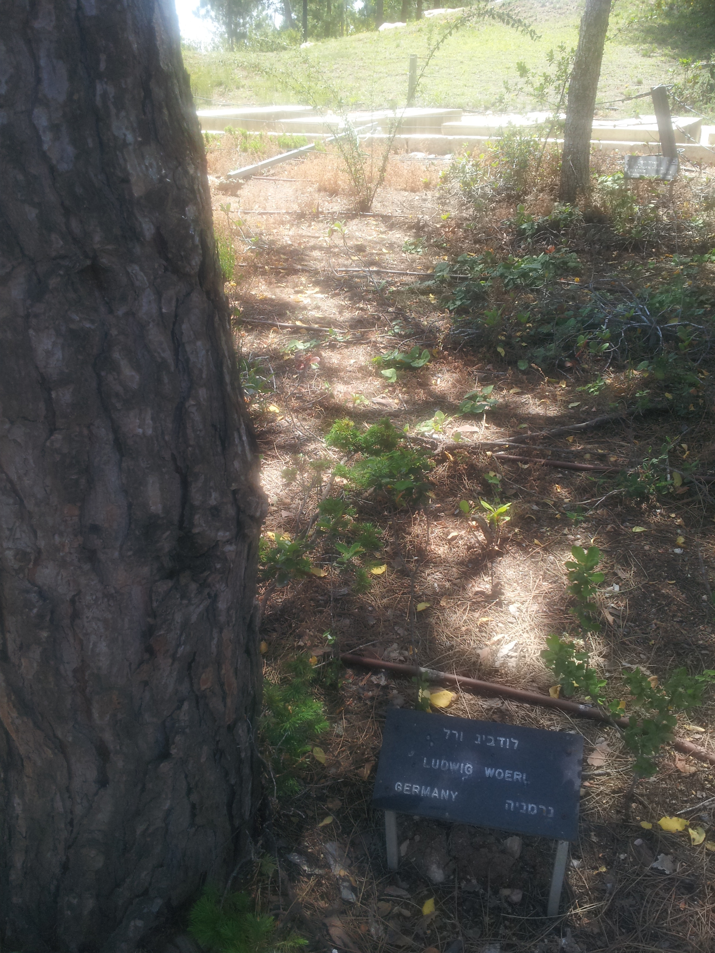 Righteous Among the nations Ludwig Wörl tree at Yad Vashem